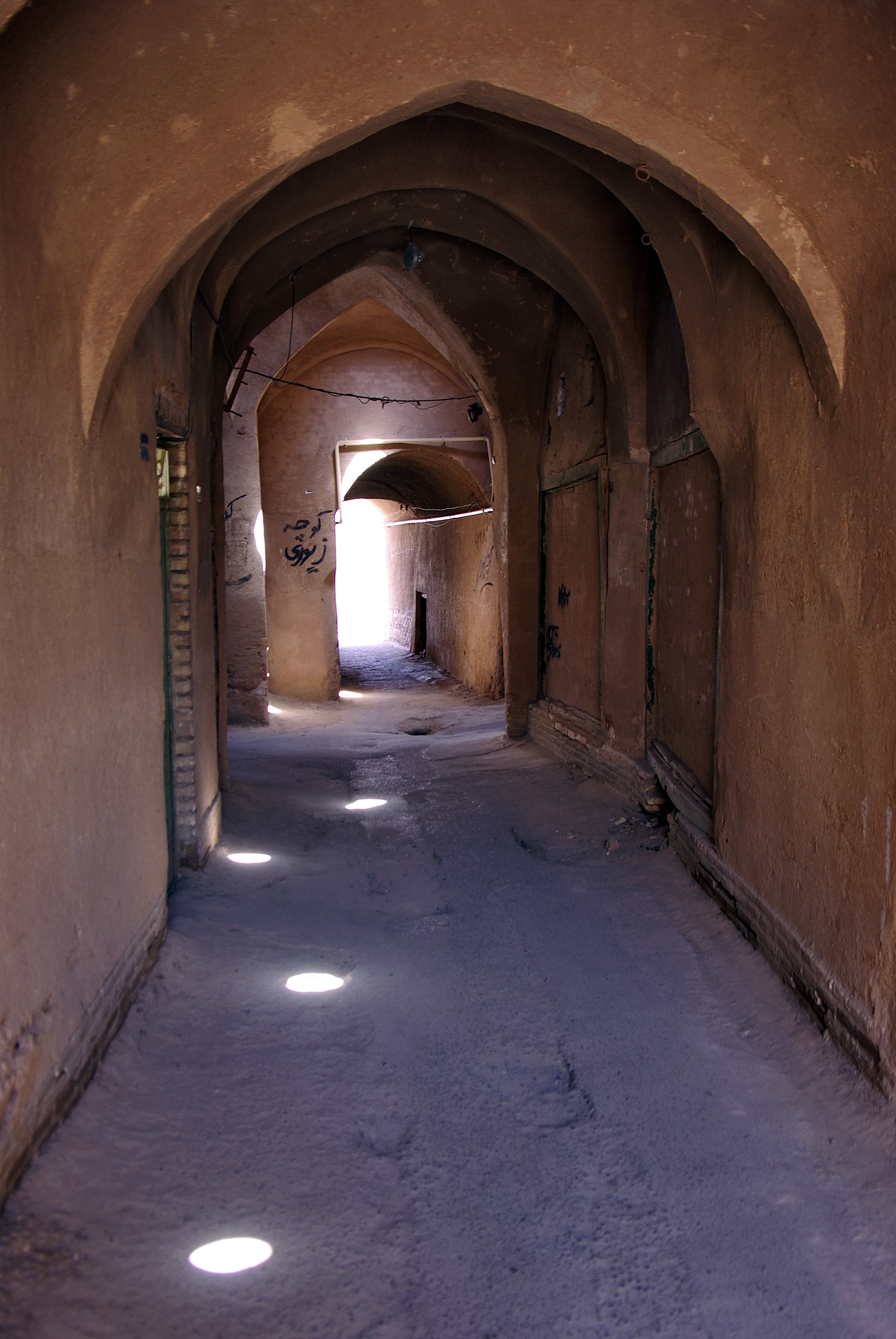 Roofed lane in the old city of Yazd, Iran. An example of a traditional Kucheh (Koocheh), a roofed narrow street designed for places with hot dry climates.